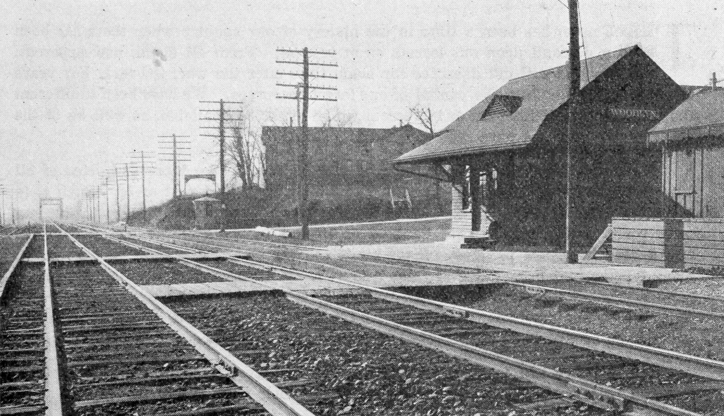 Baltimore and Ohio Railroad station in Woodlyn, Pennsylvania (1912). Title: Baltimore and Ohio employees magazine Year: 1912 (1910s) Authors: Baltimore and Ohio employees magazine Baltimore and Ohio Railroad Company Subjects: Baltimore and Ohio Railroad Company Publisher: (Baltimore, Baltimore and Ohio Railroad) Text Appearing Before Image: crew at work. There havebeen two derailments of locomotives here re-cently, so I had some chance of seeing how thewreck crews act. They do not use a crane, buthand-power jacks of various sizes, raising theengine up on blocks and ties, and graduallypushing it over upon the track. On a simplederailment they use large crank-operated jacks.In serious derailments, such as the last one(when the little switch engine split a switch,knocked over a jumping post, and proceeded tobury itself up to its axles in the clay), they use alarger jack, working on the same principle asthe capstan on a boat, with the possible excep-tion that the lever works on a rachet. A ropeis attached to the handle, or lever, near the end.One man stands at the jack and pushes on thelever while two or three pull on the rope. Theman at the jack then pulls it back on the rachet,and they pull again, until by this laboriousprocess they get another block underneath. Will drop you a line later, when I get theopportunity. Fr^nk. Text Appearing After Image: Standard Track and Station, Woodlyn, Pa., Baltimore Division